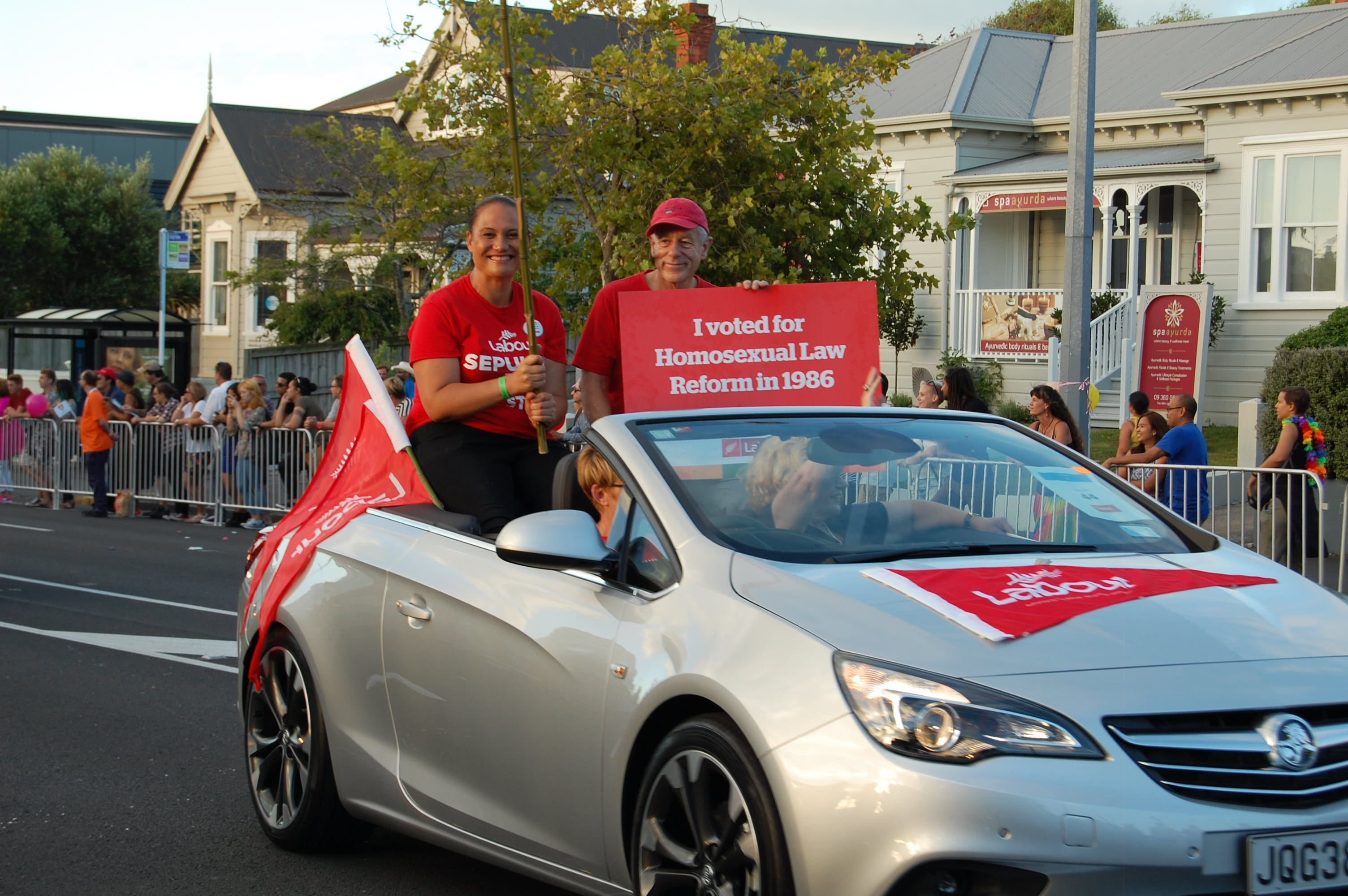 Carmel Sepuloni and Richard Northey on Auckland pride parade 2016 Personality rights warningAlthough this work is freely licensed or in the public domain, the person(s) shown may have rights that legally restrict certain re-uses unless those depicted consent to such uses. In these cases, a model release or other evidence of consent could protect you from infringement claims.